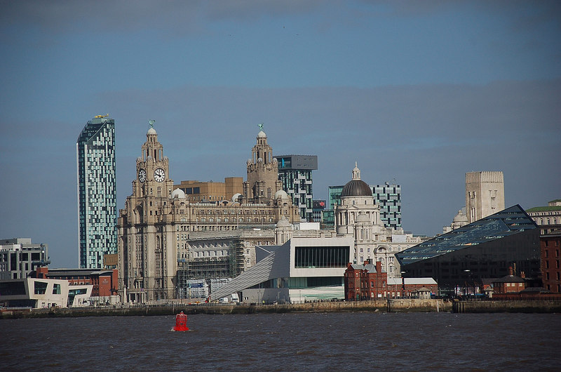 The Liverpool Waterfront including the Royal Liver Building, Cunard Building, Port of Liverpool Building, Pier Head Ferry Terminal, Malmaison Hotel, Museum of Liverpool, Mann Island Buildings, West Tower, New Hall Place, Unity Buildings and George's Dock Ventilation Shaft